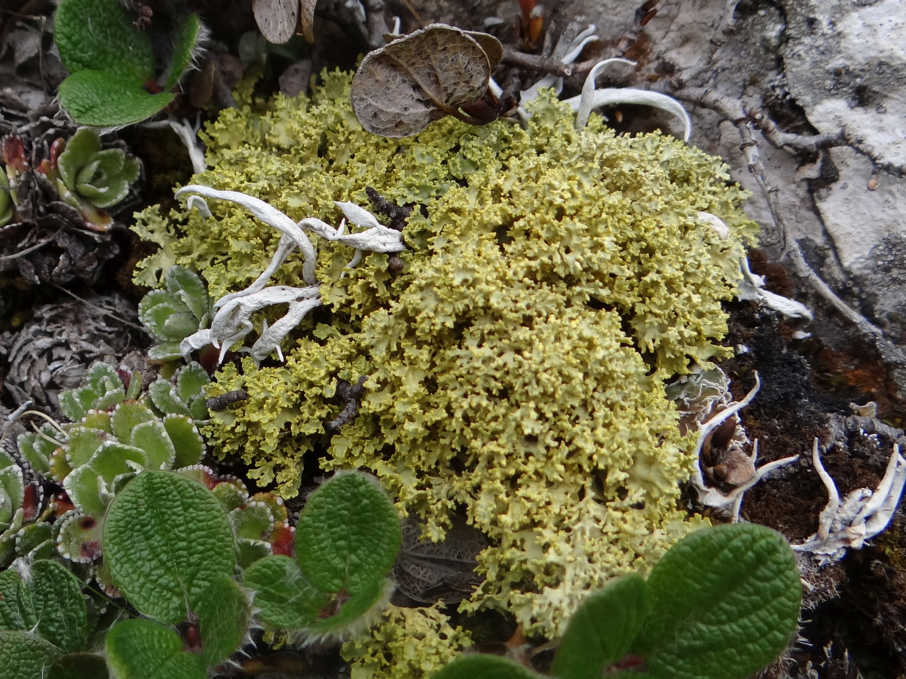 Vulpicida tubulosus (location: Poland, Tatra Mountains, Ciemniak)